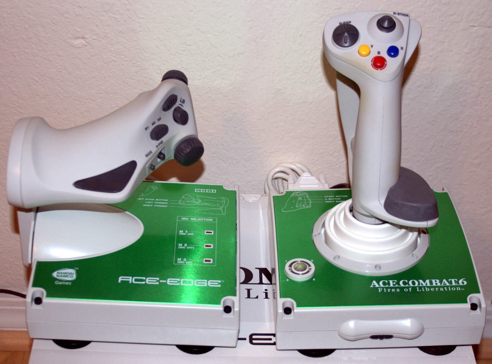 The joystick and throttle that come in the Ace Edge package of Ace Combat 6 by Bandai Namco Games.